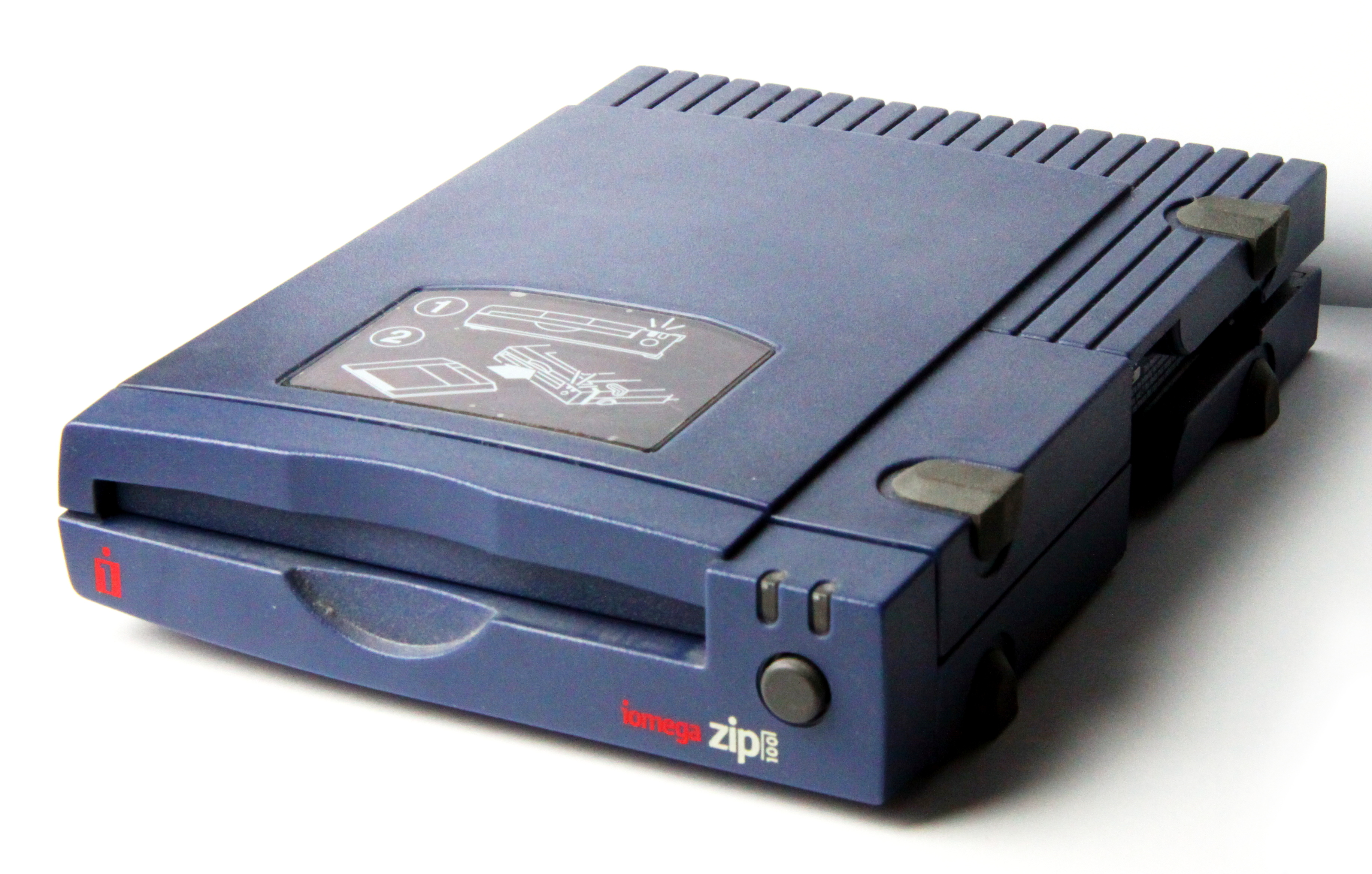 Iomega ZIP-100 Drive (parallel port version)